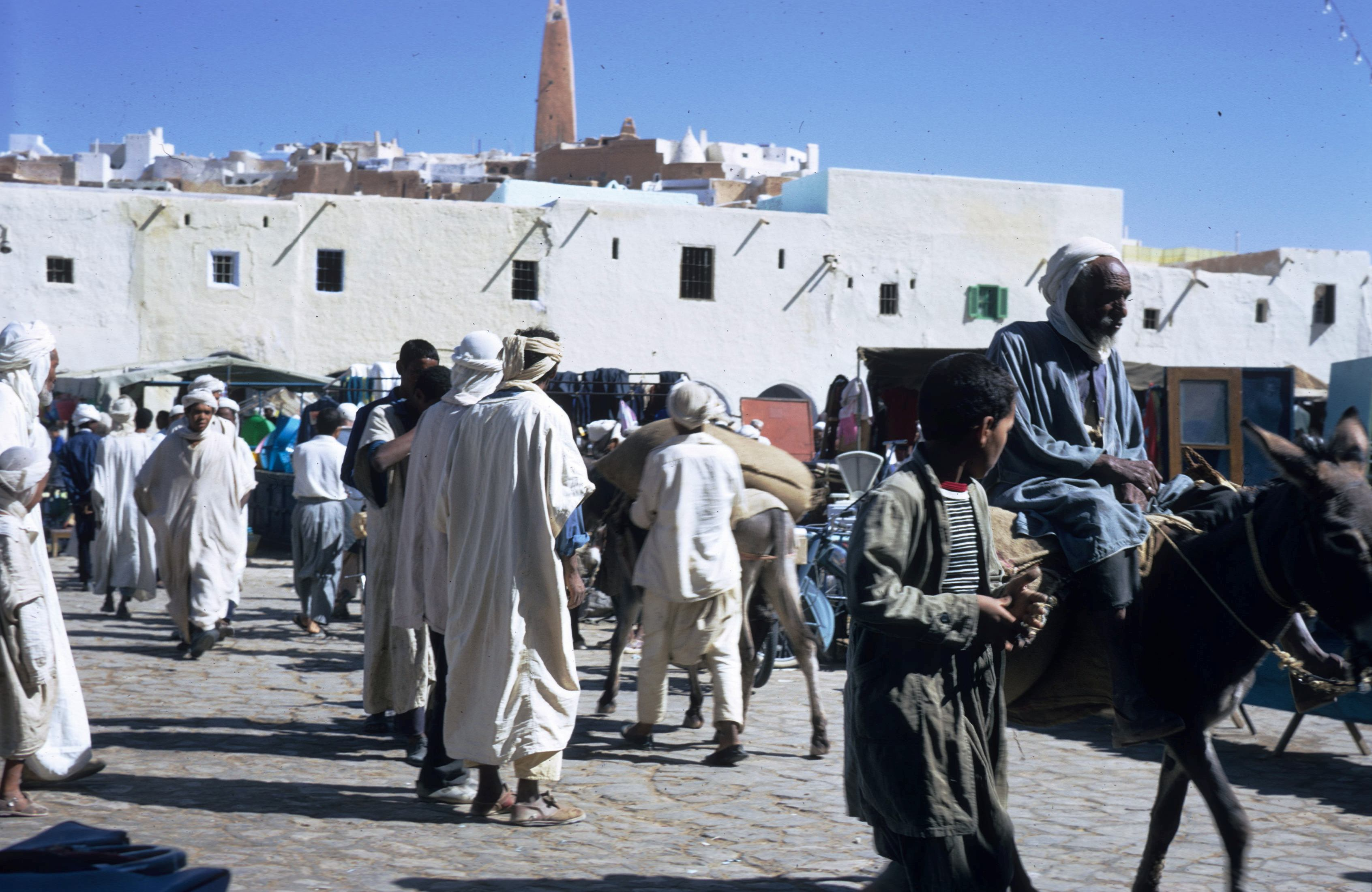 Market on the main square, Ghardaia, Algeria